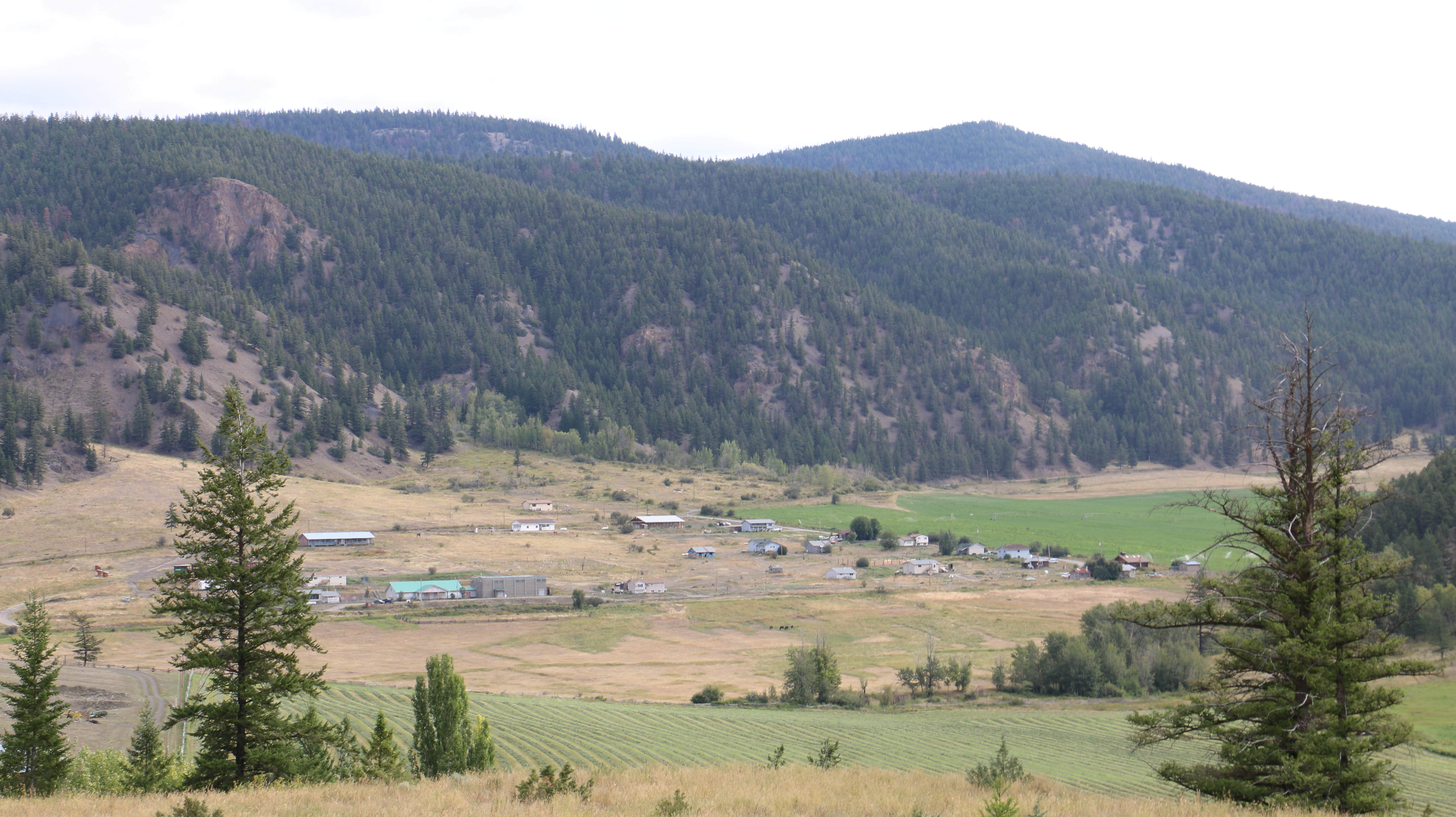 Canoe Creek townsite in the Cariboo region of British Columbia, Canada